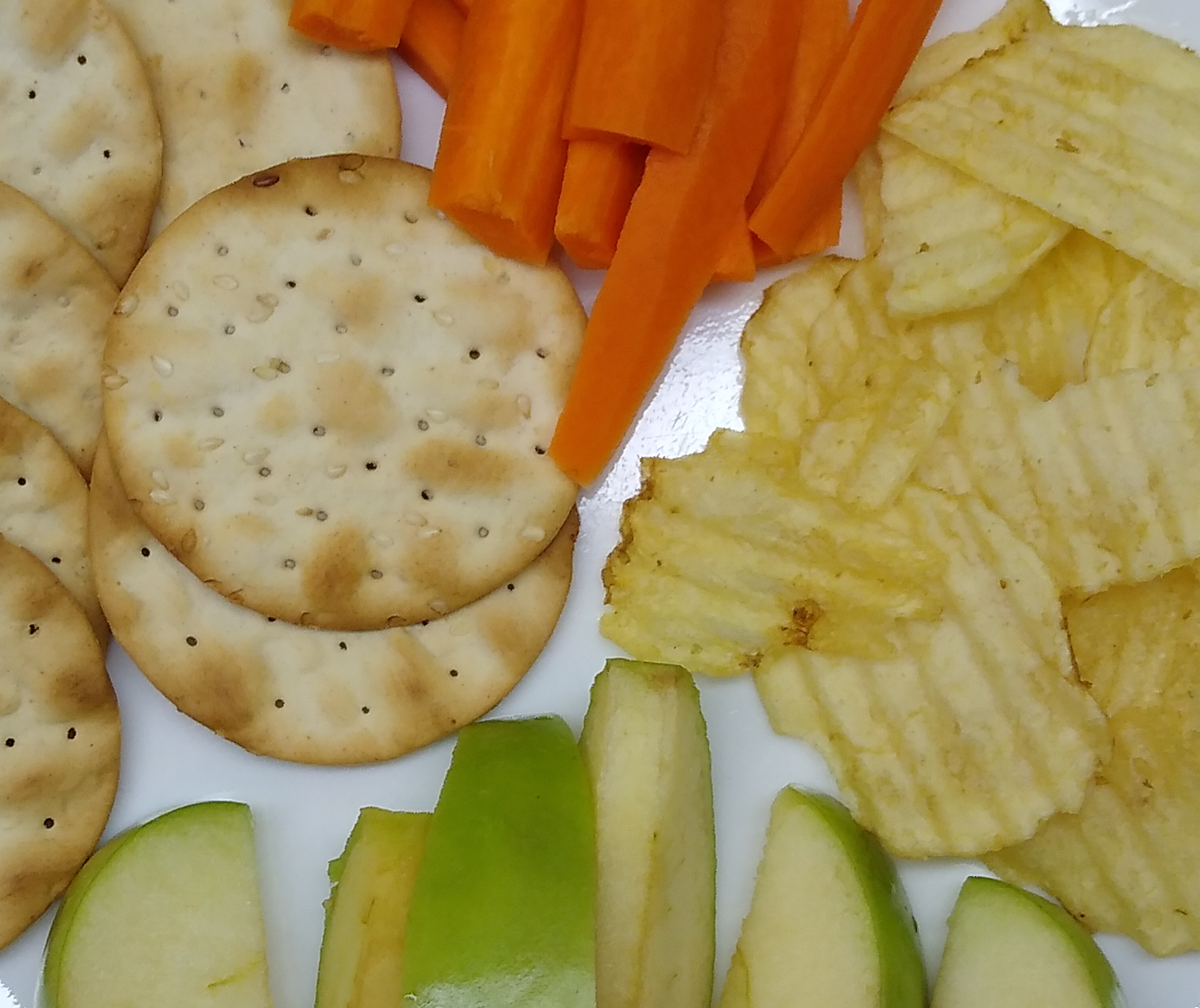 Four crunchy foods. Clockwise from top: carrot sticks, wavy potato chips, granny smith apples, and sesame water crisp crackers.